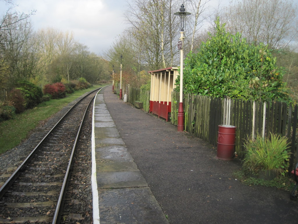 Summerseat railway station, LancashireOpened in 1848 by the East Lancashire Railway, later part of the Lancashire & Yorkshire Railway, on the line from Bury to Bacup and Accrington, this station closed in 1972 and was largely demolished. It was reopened in 2007 by a heritage railway running from Heywood to Rawtenstall. View north towards Ramsbottom and Rawtenstall. The original northbound track and platform were to the left.